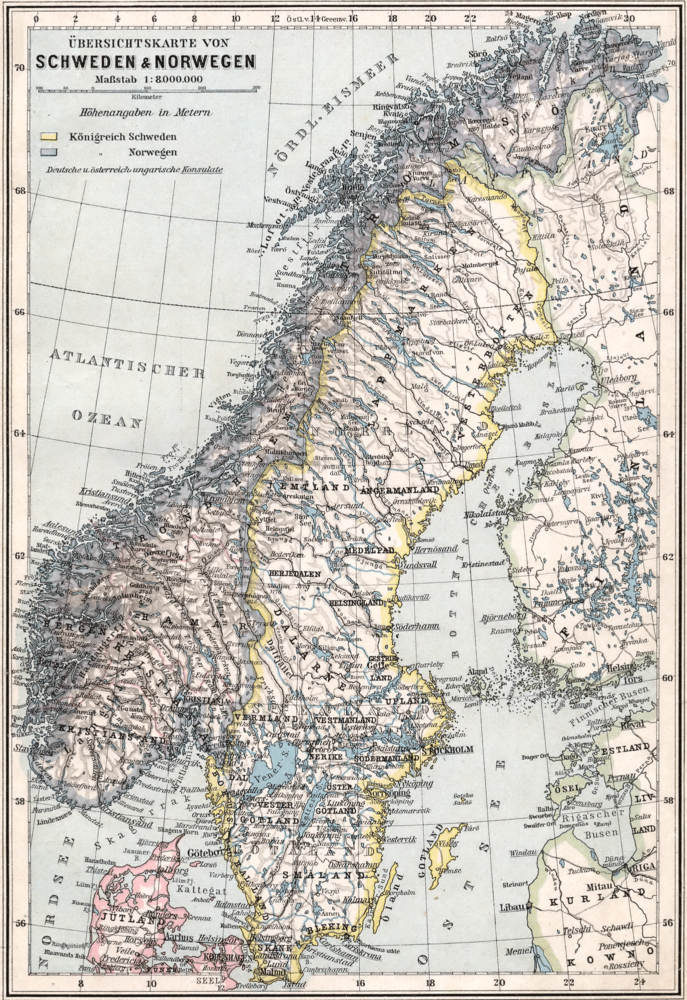 Historical map of Sweden/Norway (1905)